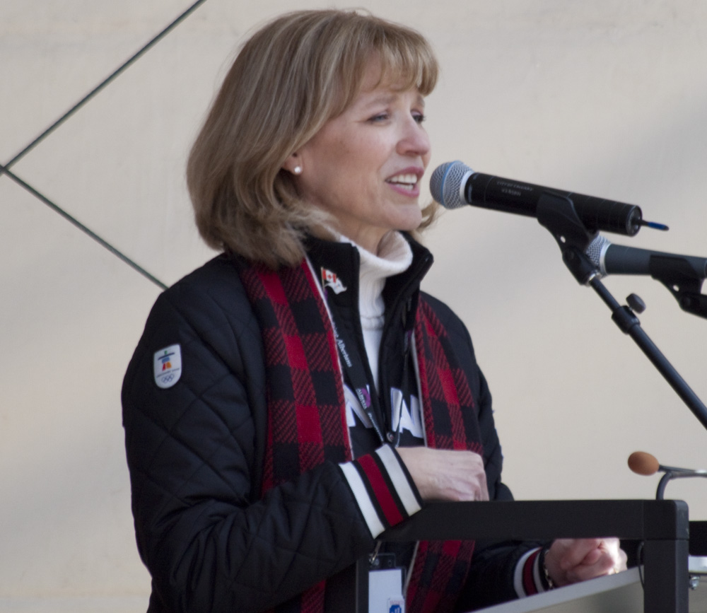 Cindy Ady at a salute to Canadian Olympians and Paralympians with a connection to Alberta, that was put on at the Olympic Plaza in Calgary, Alberta, Canada. Image has been scaled down in size and cropped.